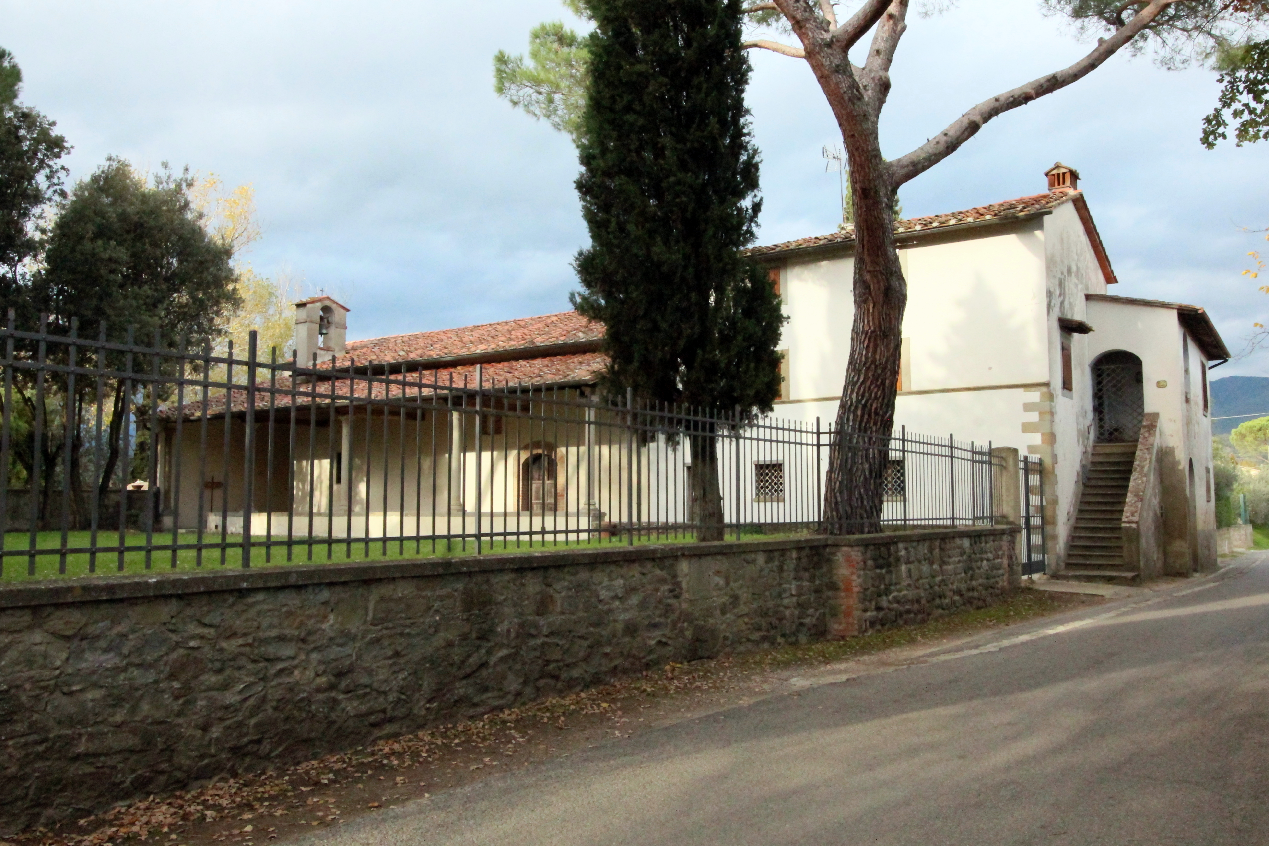 Ex-Church Santa Maria in Campo Arsiccio, near Campogialli, hamlet of Terranuova Bracciolini, Province of Arezzo, Tuscany, Italy